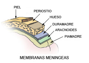 original description here